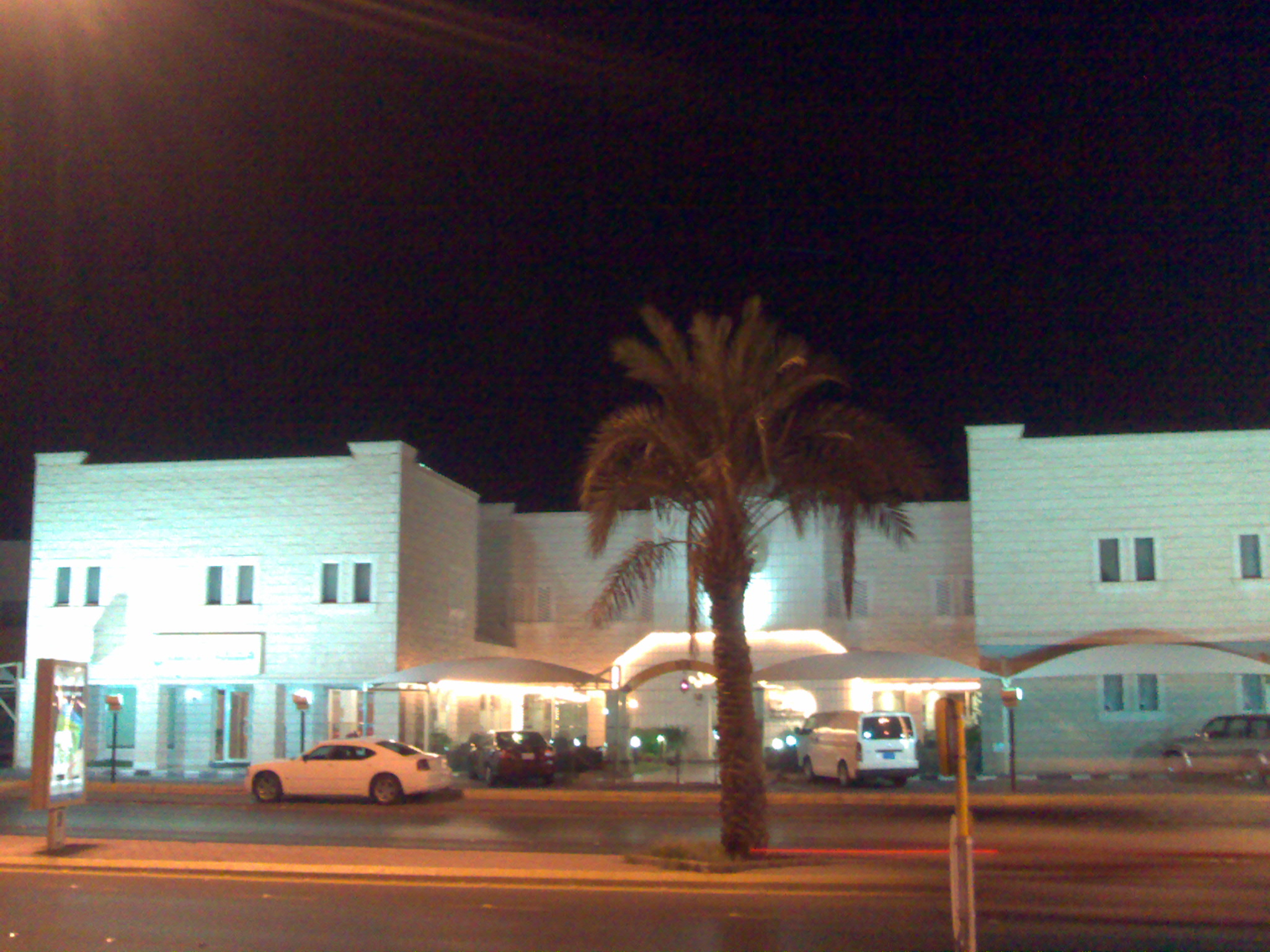 Hotel of Unaizah